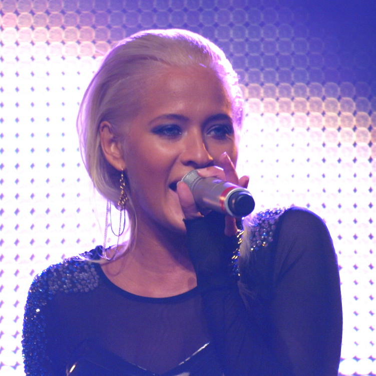 Elin Lanto at Stockholm Pride 2010.